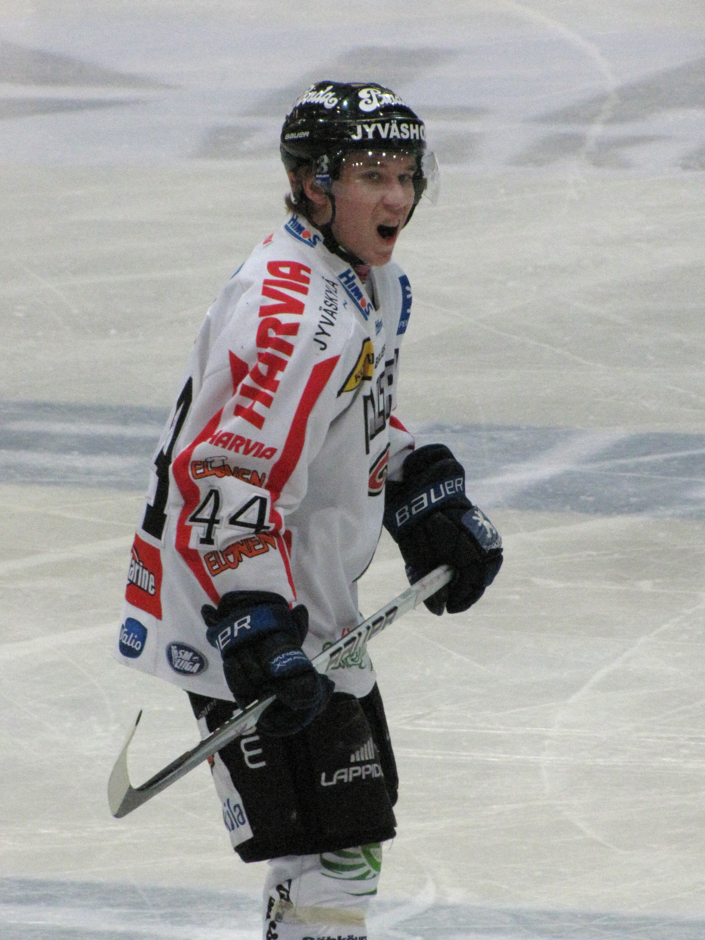 Finnish ice hockey defenceman Sami Vatanen playing for Jyväskylä JYP in an SM-liiga quarterfinals game against Tampere Ilves in Tampere, Finland, March 2011.